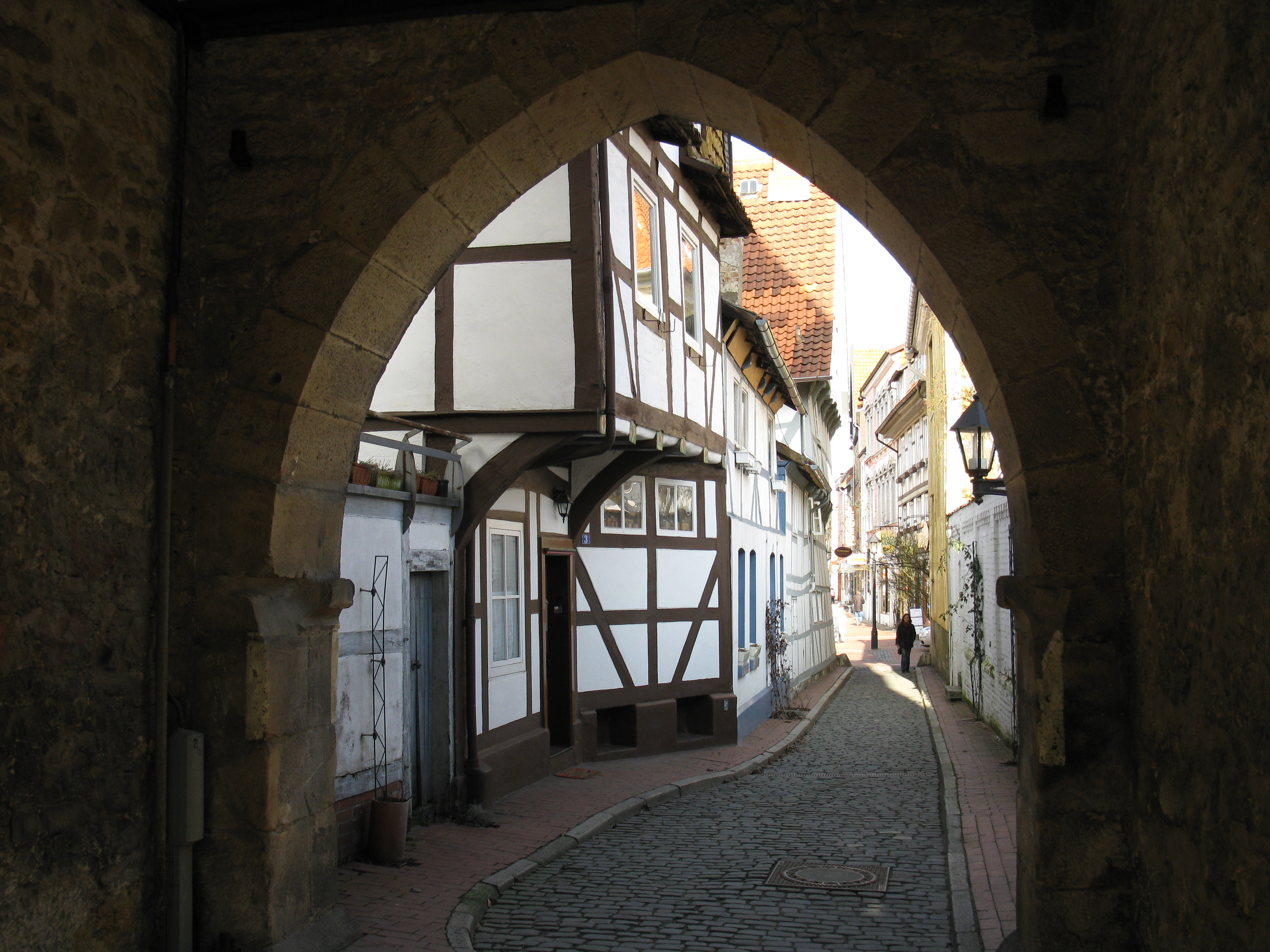 Street "Am Kehrwieder" in Hildesheim.